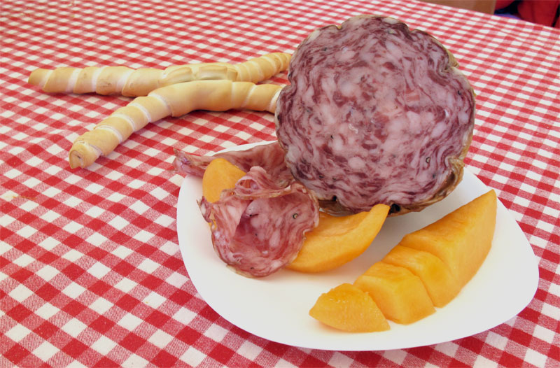 A typical snack from the town of Ferrara, Italy: cantaloupe, "zia" salami and "coppia" bread.